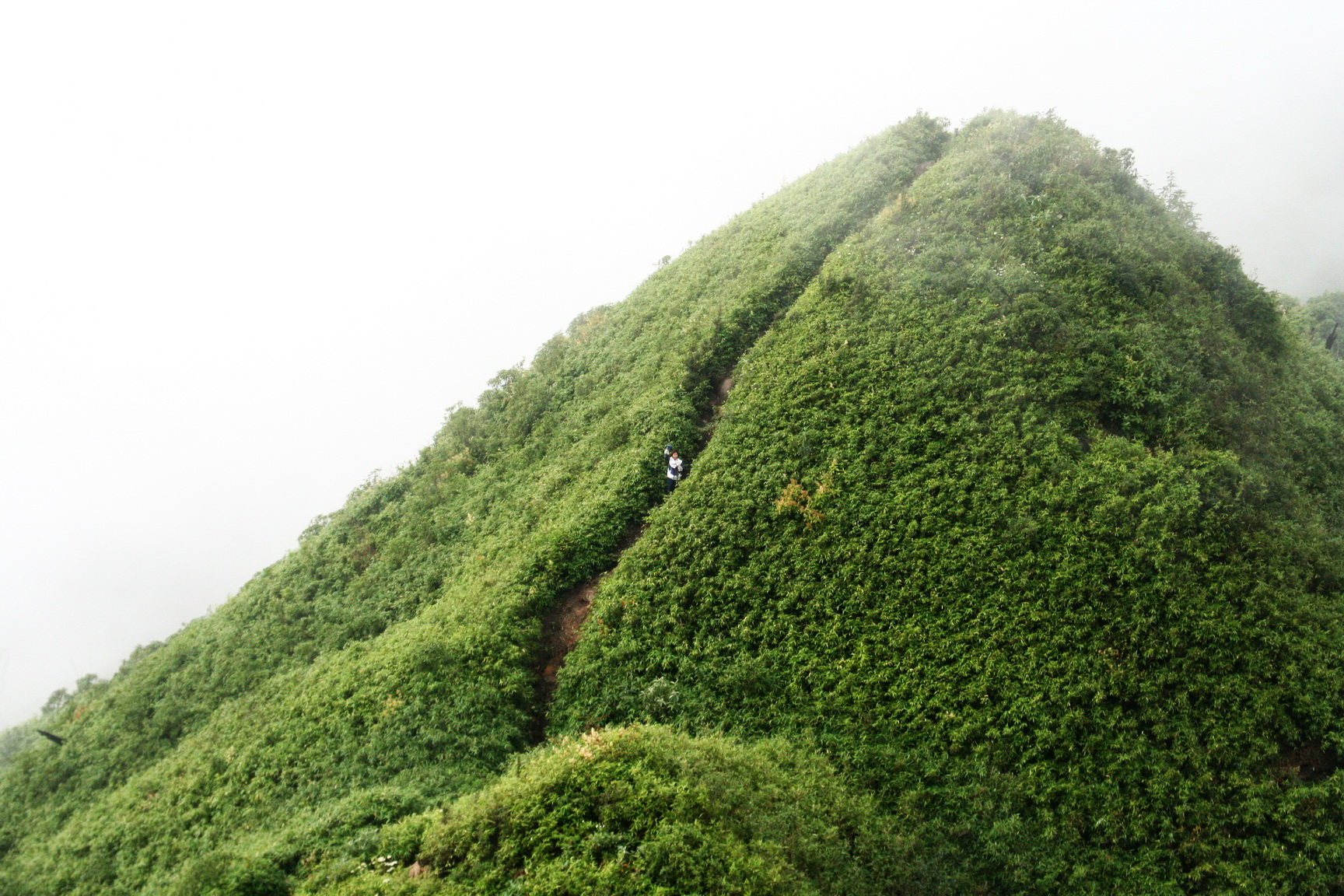 Unique route to Fansipan through successive small peaks at an altitude of 2900-3000m.